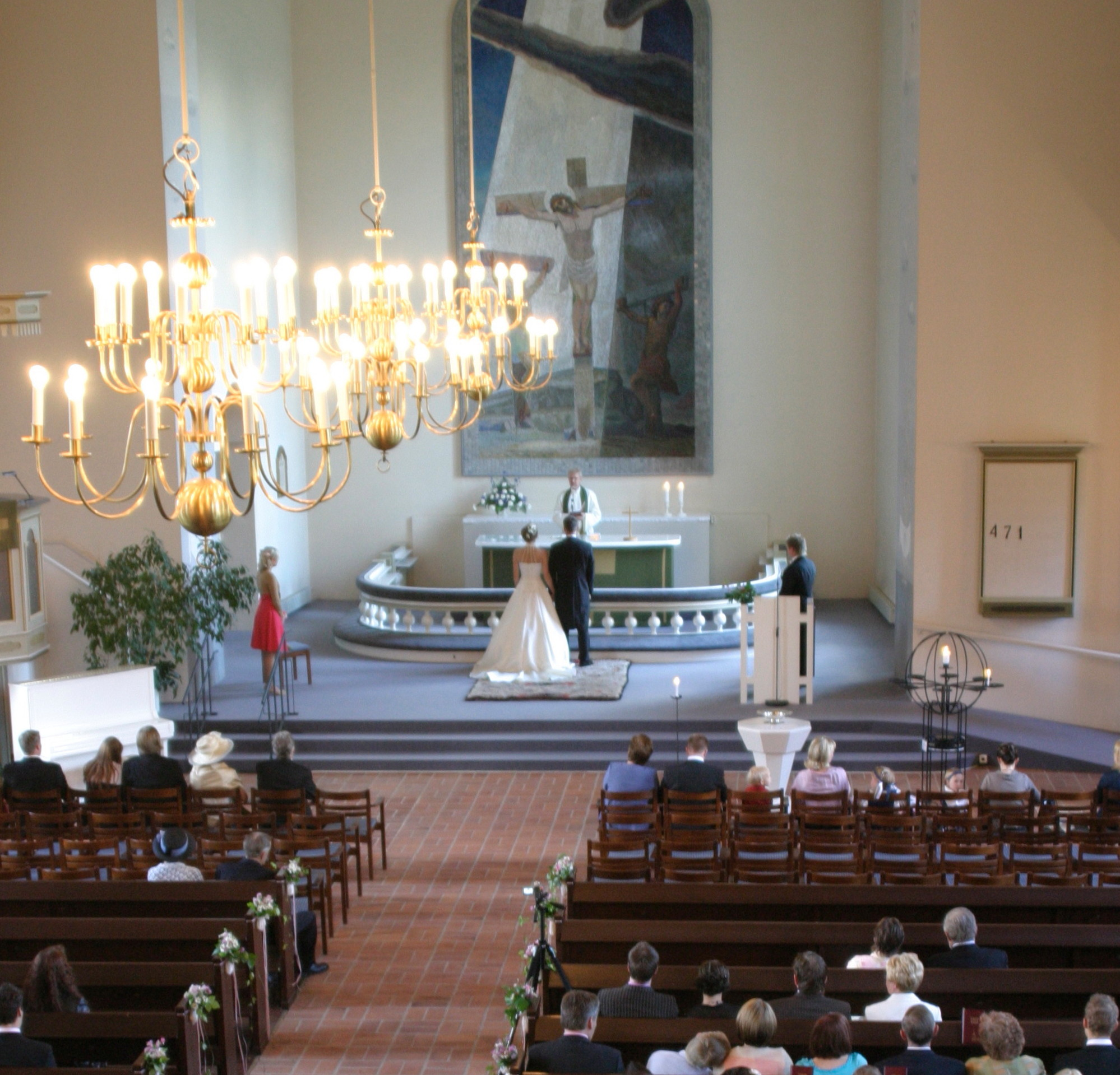 A wedding at the Kiuruvesi Lutheran Church in Kiuruvesi, Finland